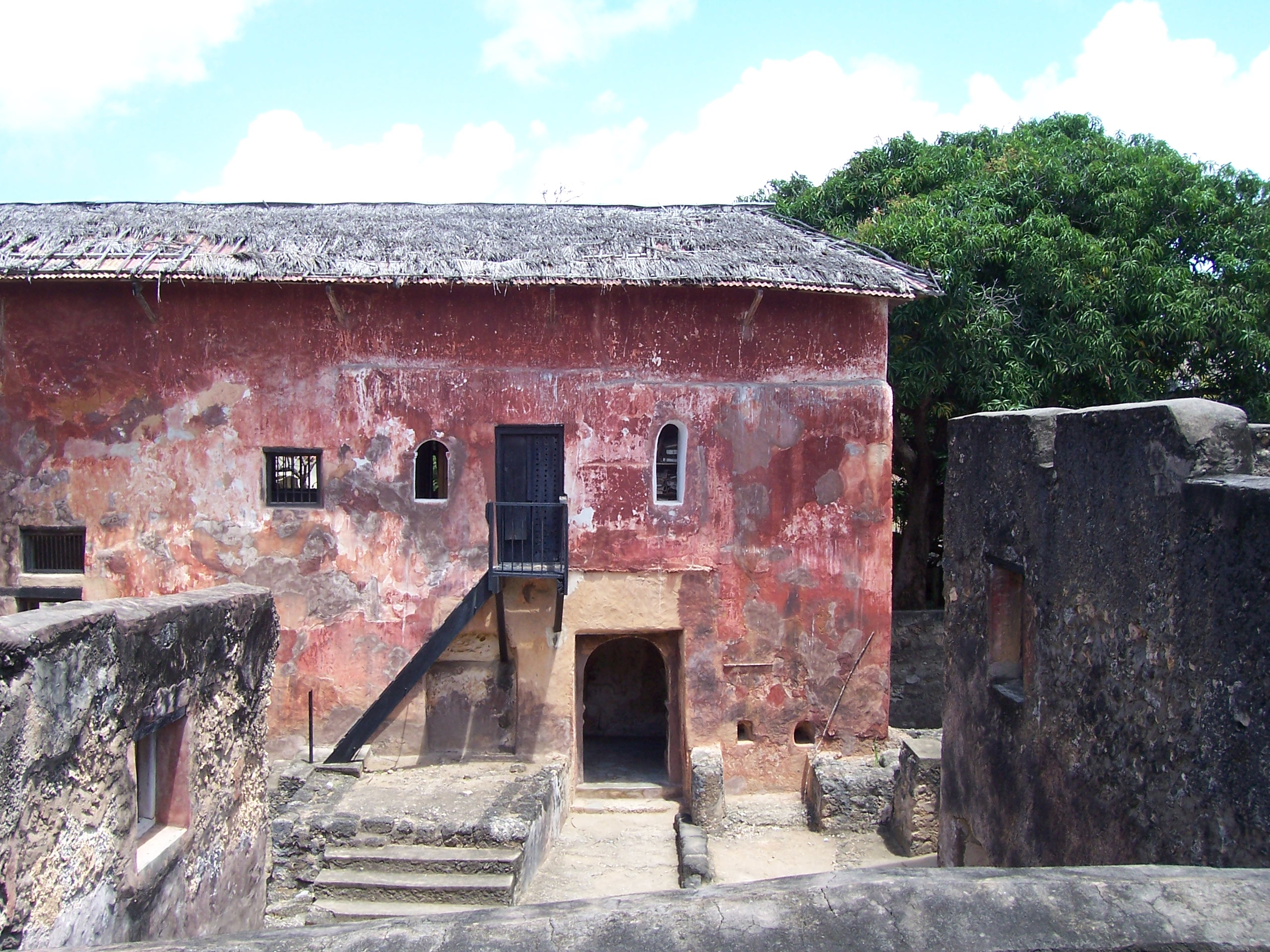 Forst Jesus, Mombasa